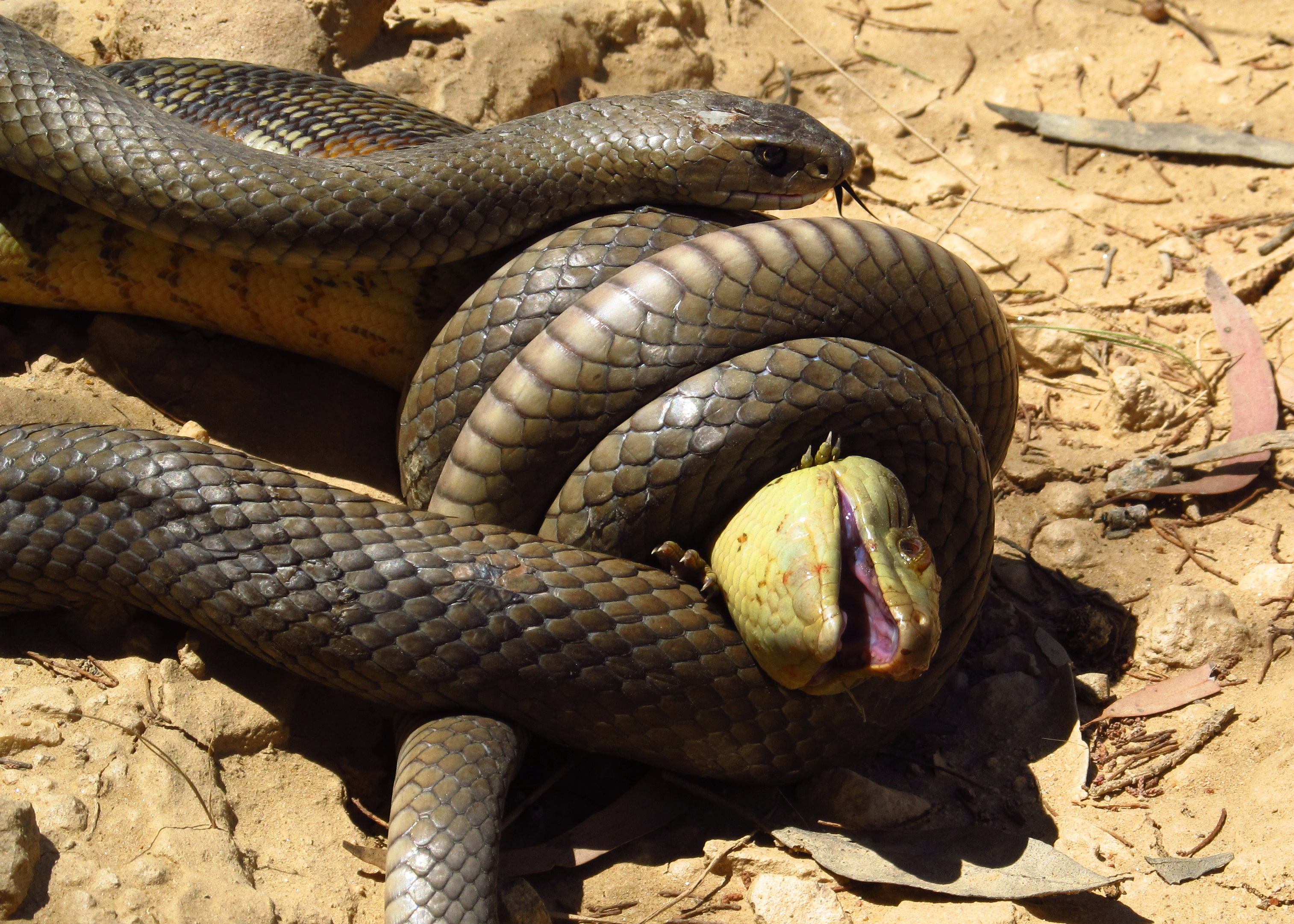 Northern Victoria. (Pseudonaja textilis VS Tiliqua scincoides scincoides)